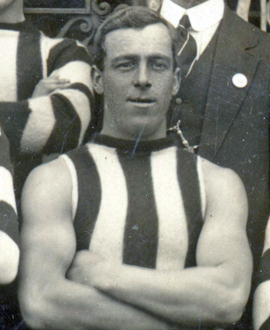 Photo of Mal Seddon from 1911-1921